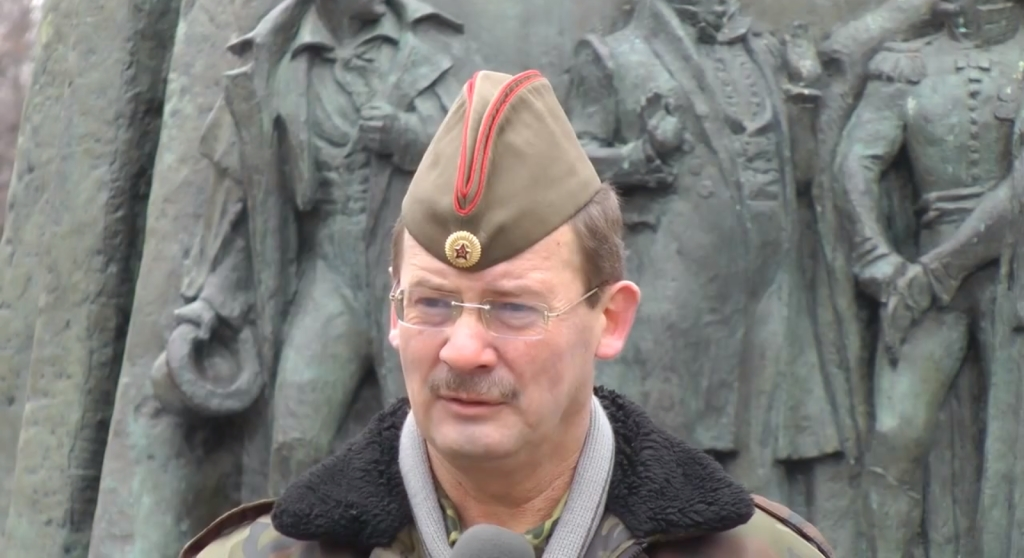 Lt. Col. Stanislav Terekhov holds a speech at the Volya meeting of March 19, 2011, Moscow.